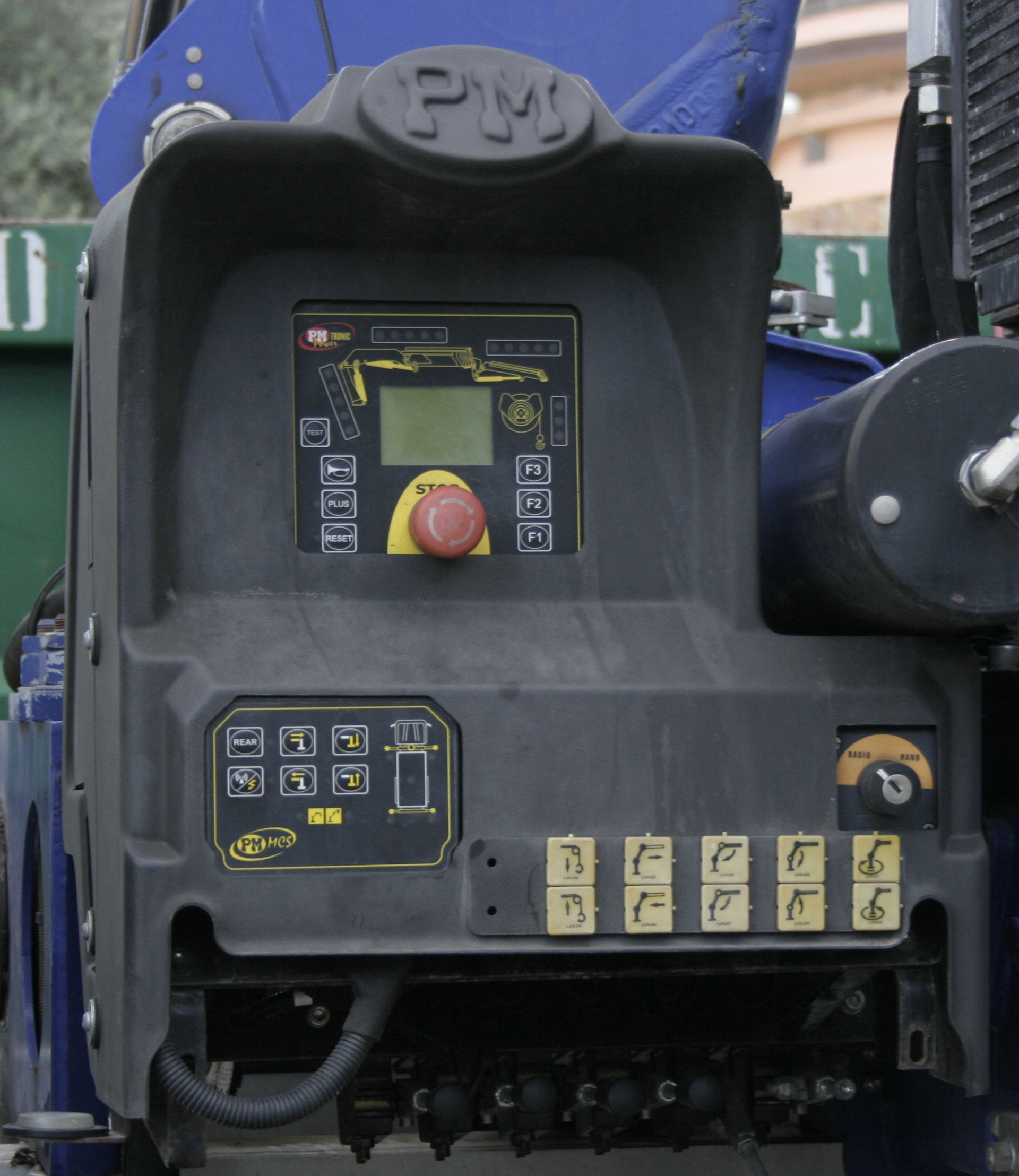 PM Crane radio